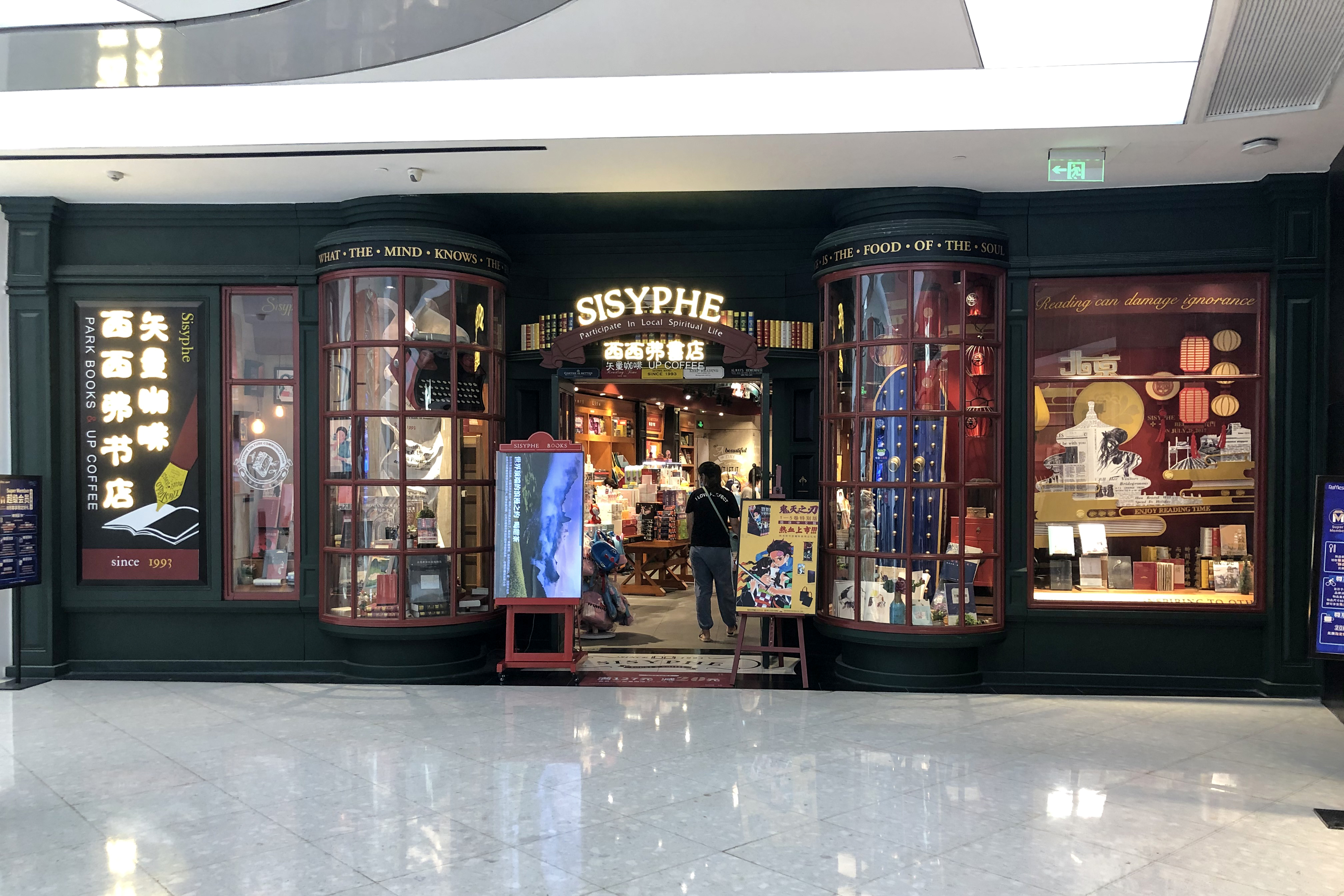 At 2F, 09B.